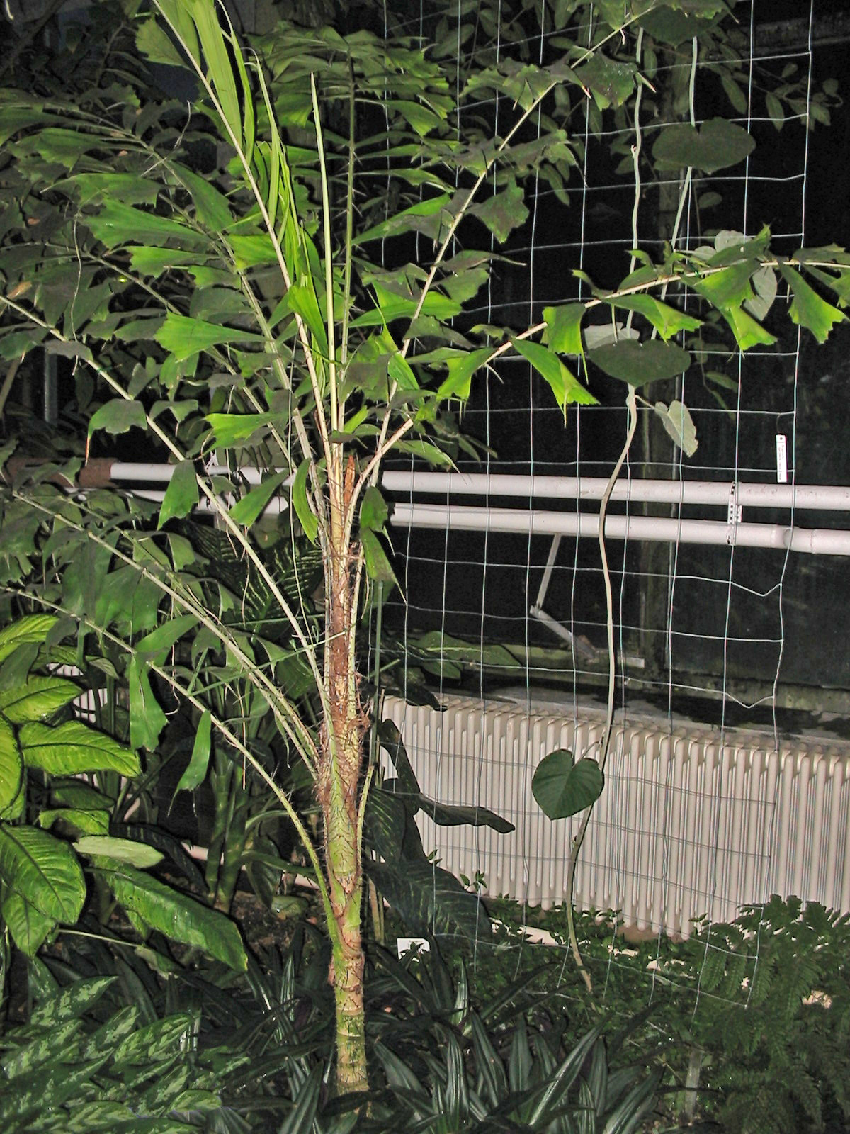 Aiphanes horrida in the botanical Garden Jena